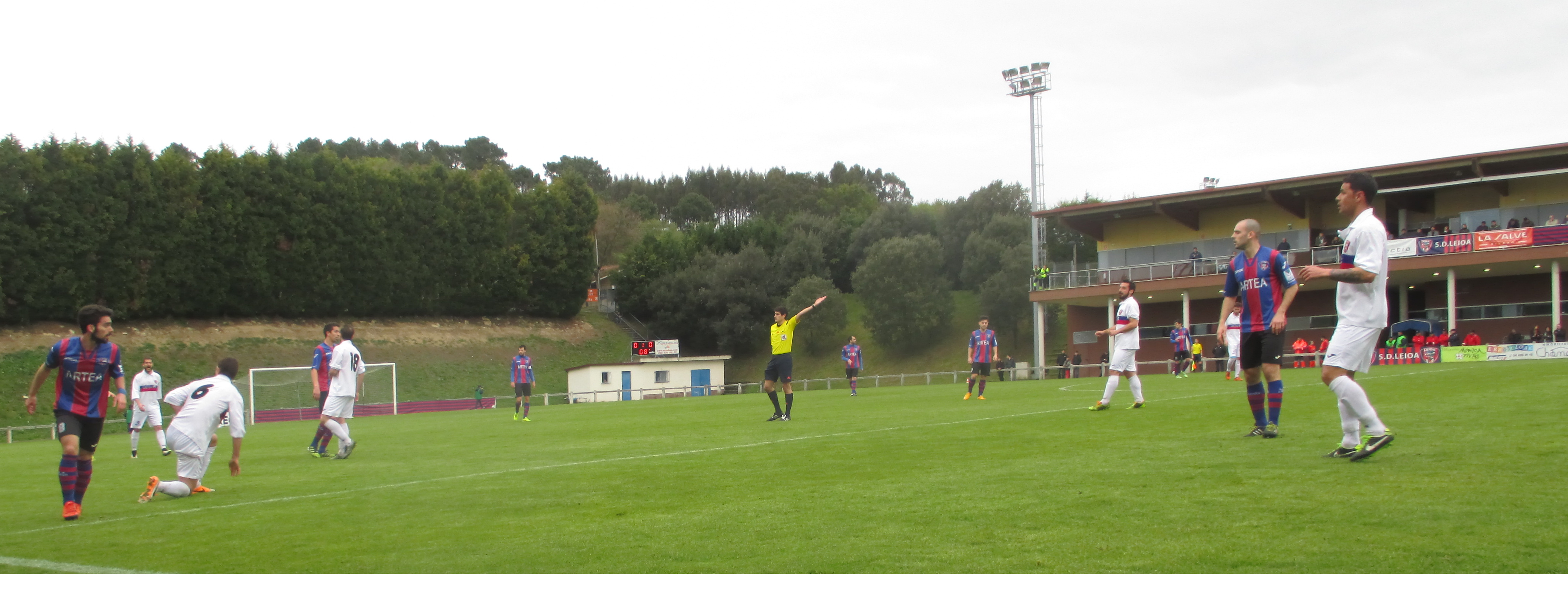 Match between Sociedad Deportiva Leioa and La Roda Club de Fútbol at Sarriena, Leioa, Biscay, Basque Country, Spain, April 9, 2016. La Roda players were wearing Leioa's second (white) shirts, because both sets of shirts they had taken to Leioa were considered too similar to Leioa's first.